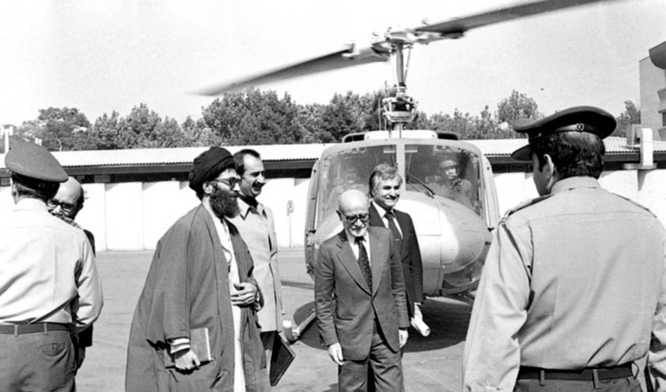 PM Bazargan after landing